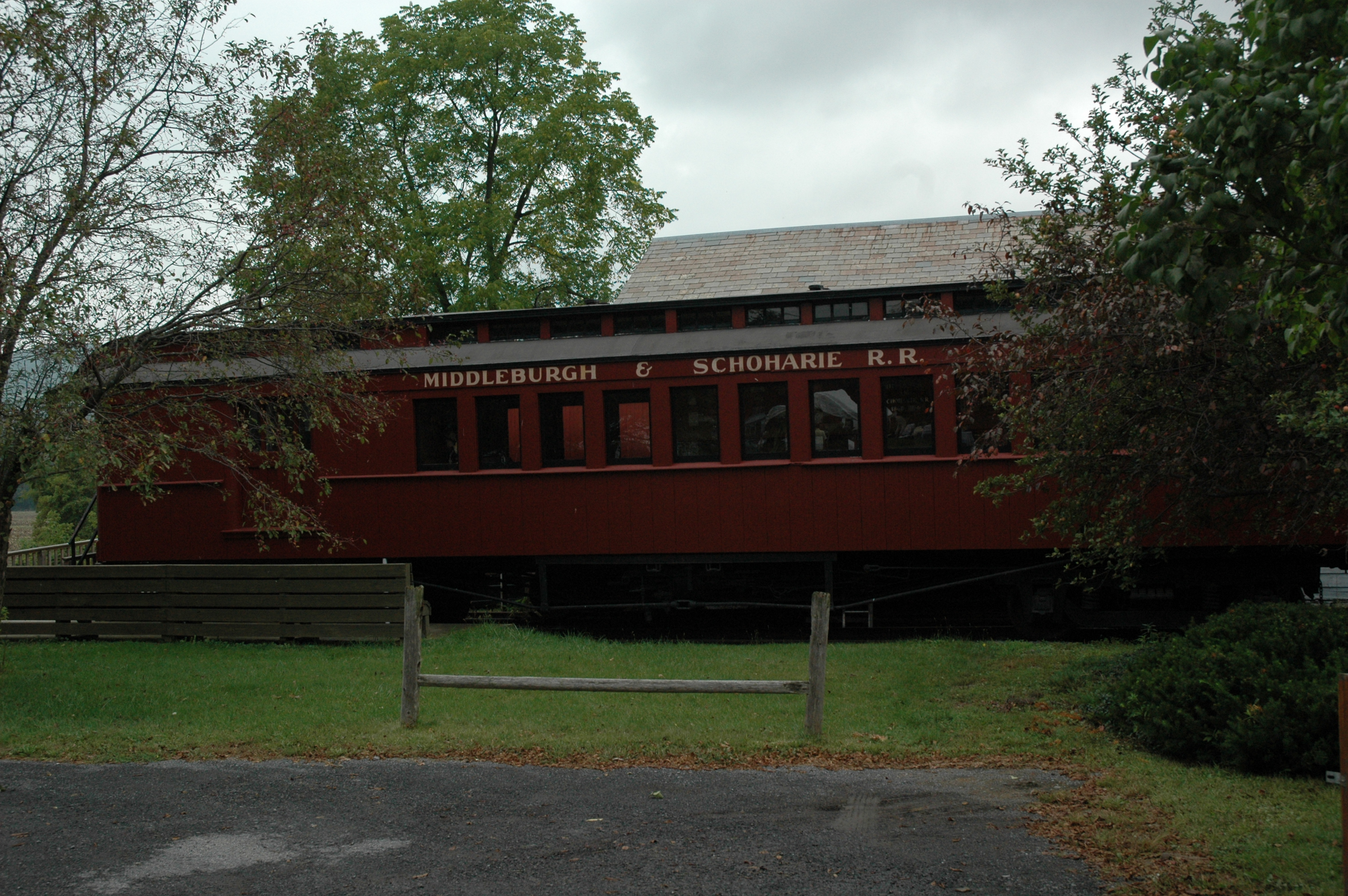 RR car of the Middleburgh-Schoharie Railroad. Taken by Sgt. bender's brother.